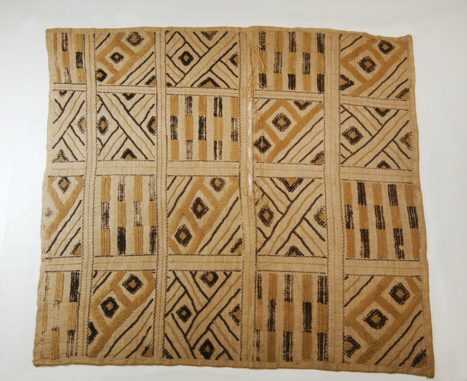 Raffia Cloth